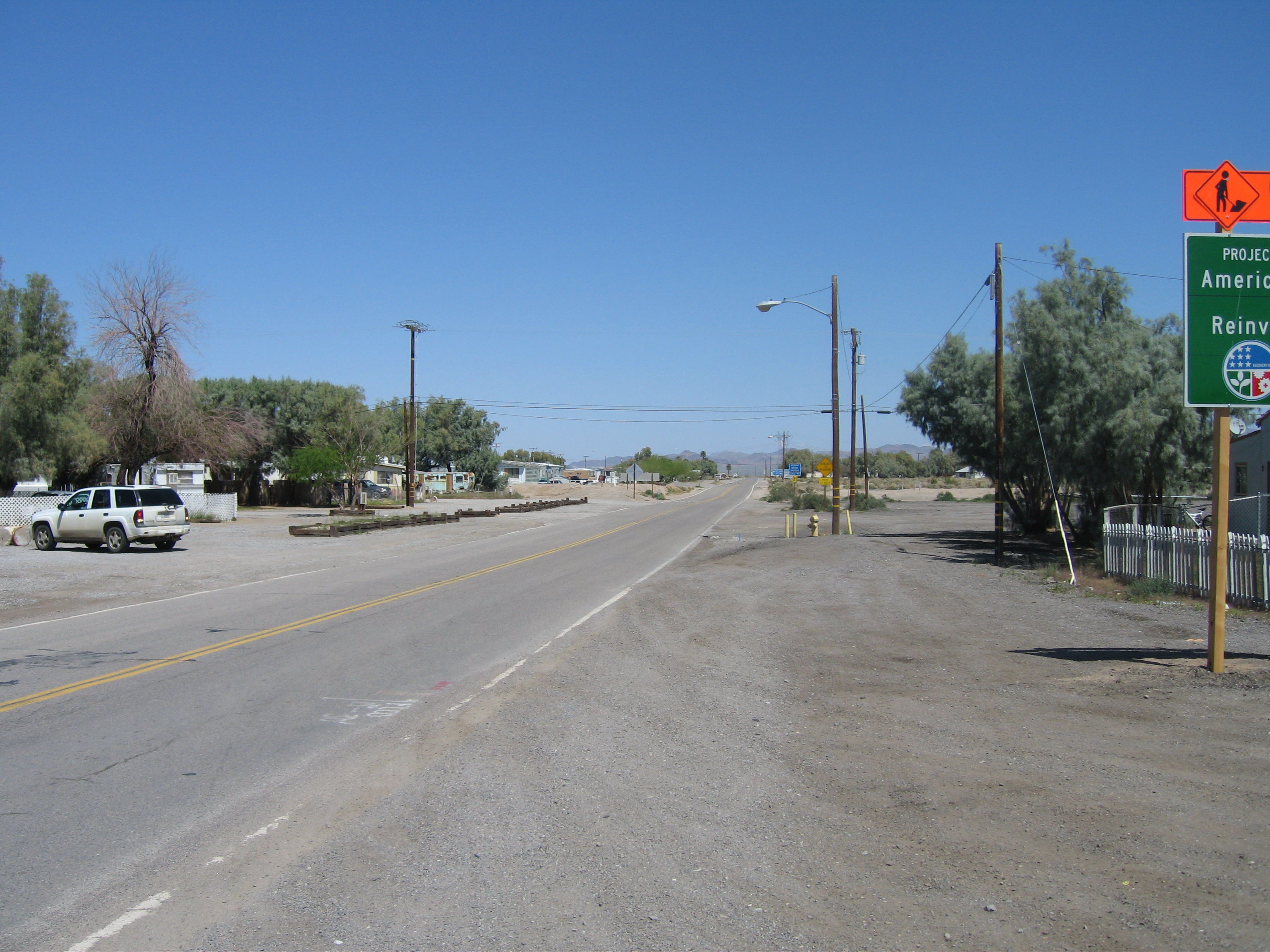 View of California Highway 127 in Baker, CA, looking in the direction of Death Valley.